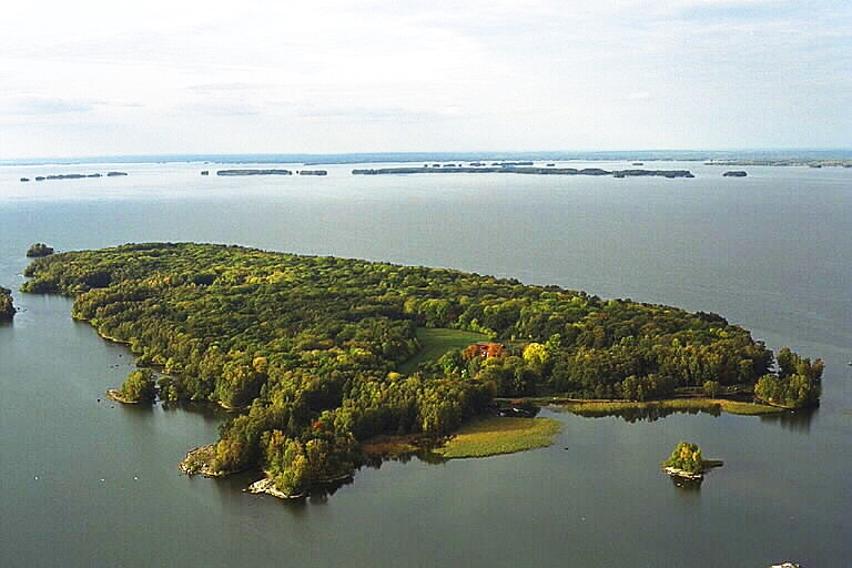 Tåkenön (island) in lake Hjälmaren in Katrineholm municipality, Södermanland county, Sweden